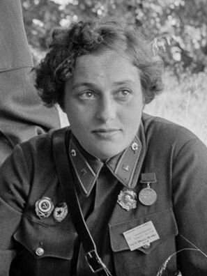 Washington, D.C. International youth assembly. Russian delegates. Lyudmila Pavlichenko, Soviet woman sniper is on the right